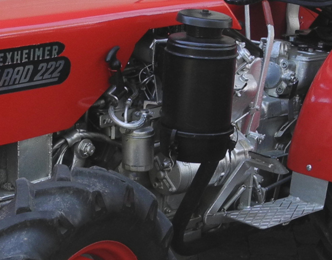 Farymann S engine with 30 hp in a Dexheimer Allrad 222